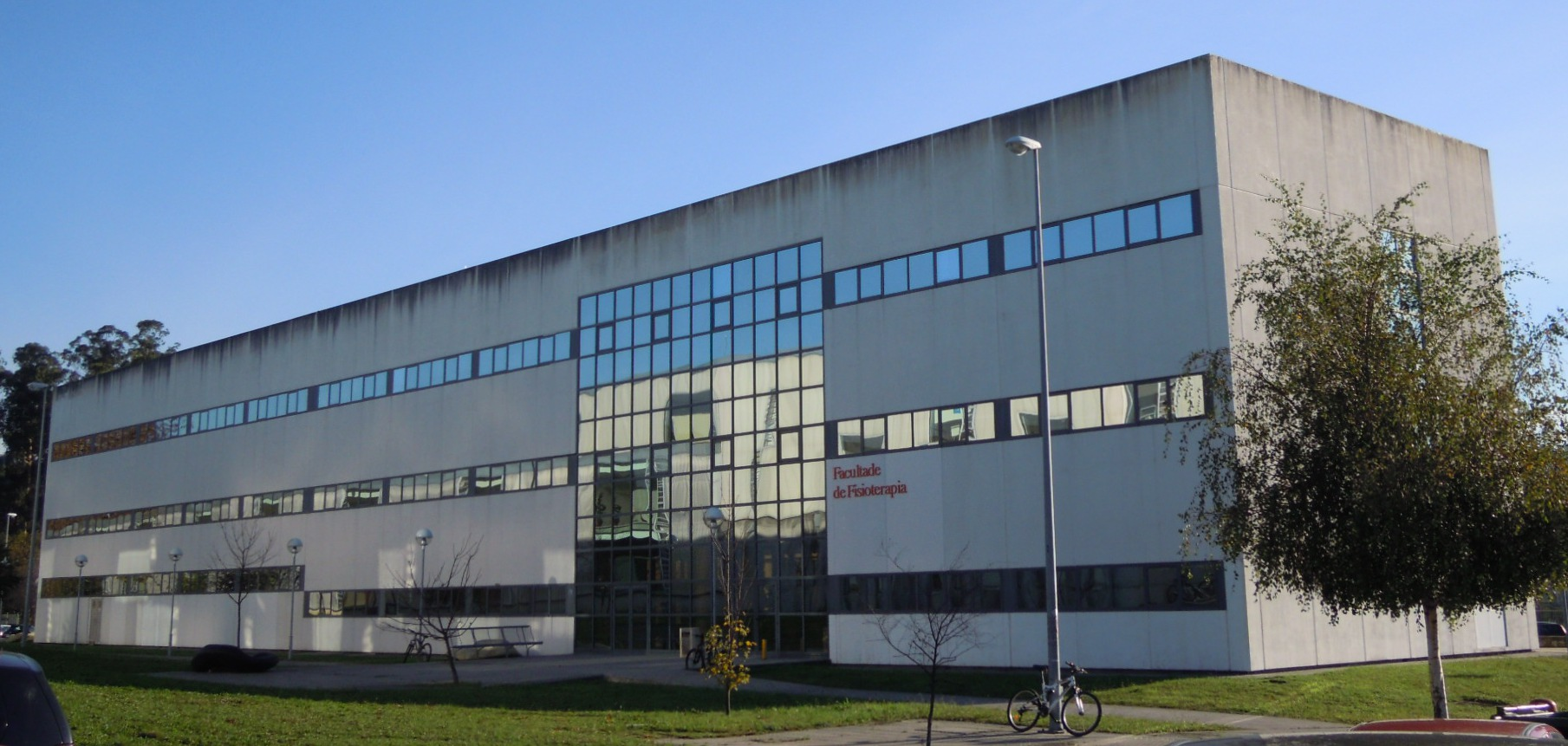 Facultade de Fisioterapia de Pontevedra